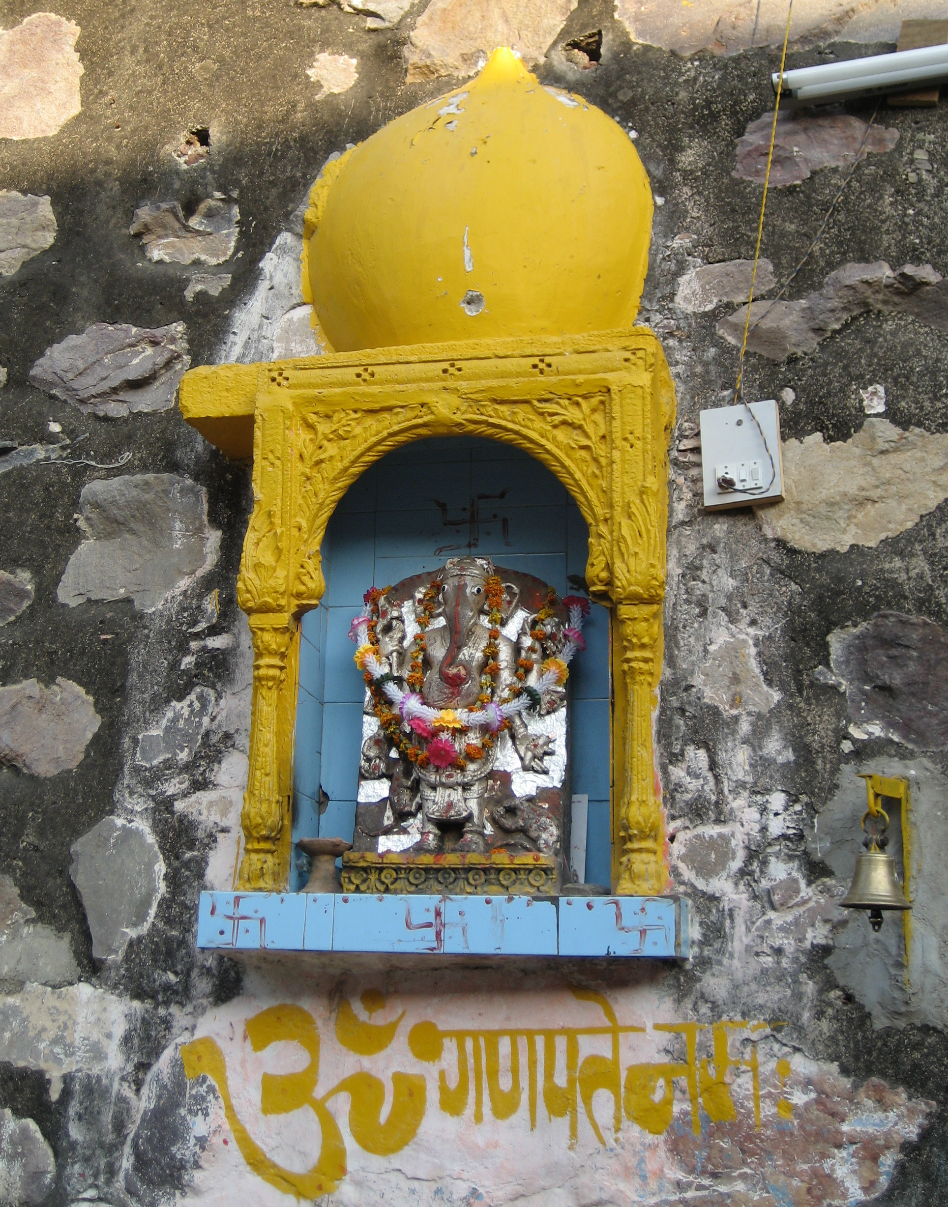 inside the walls of bhadrajun